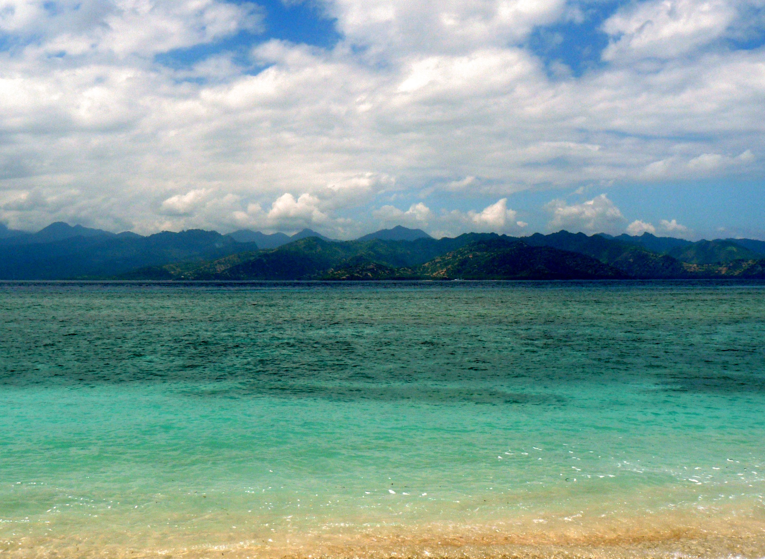 Lombok Island from Gili Trawangan Island, West Nusa Tenggara